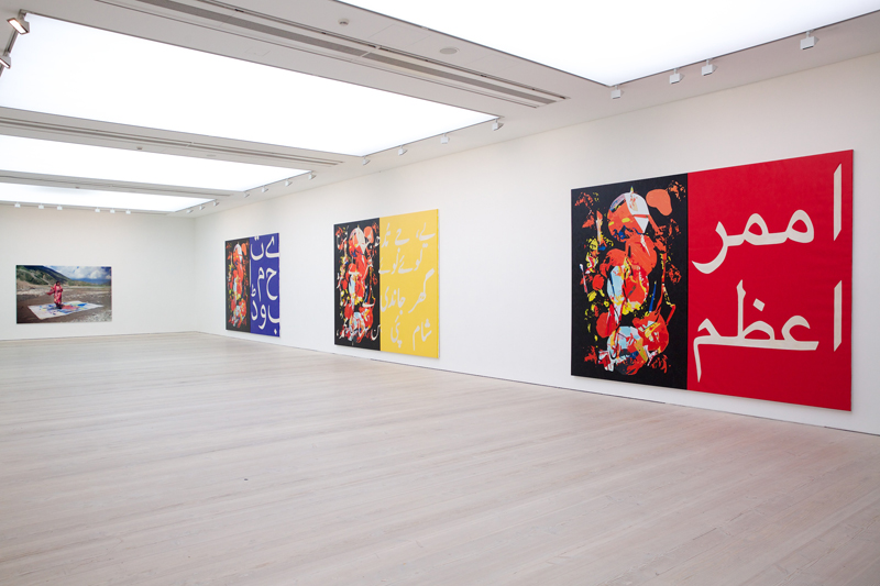 Installation view of Nasser Azam's exhbition Saiful Malook at the Saatchi Gallery, London